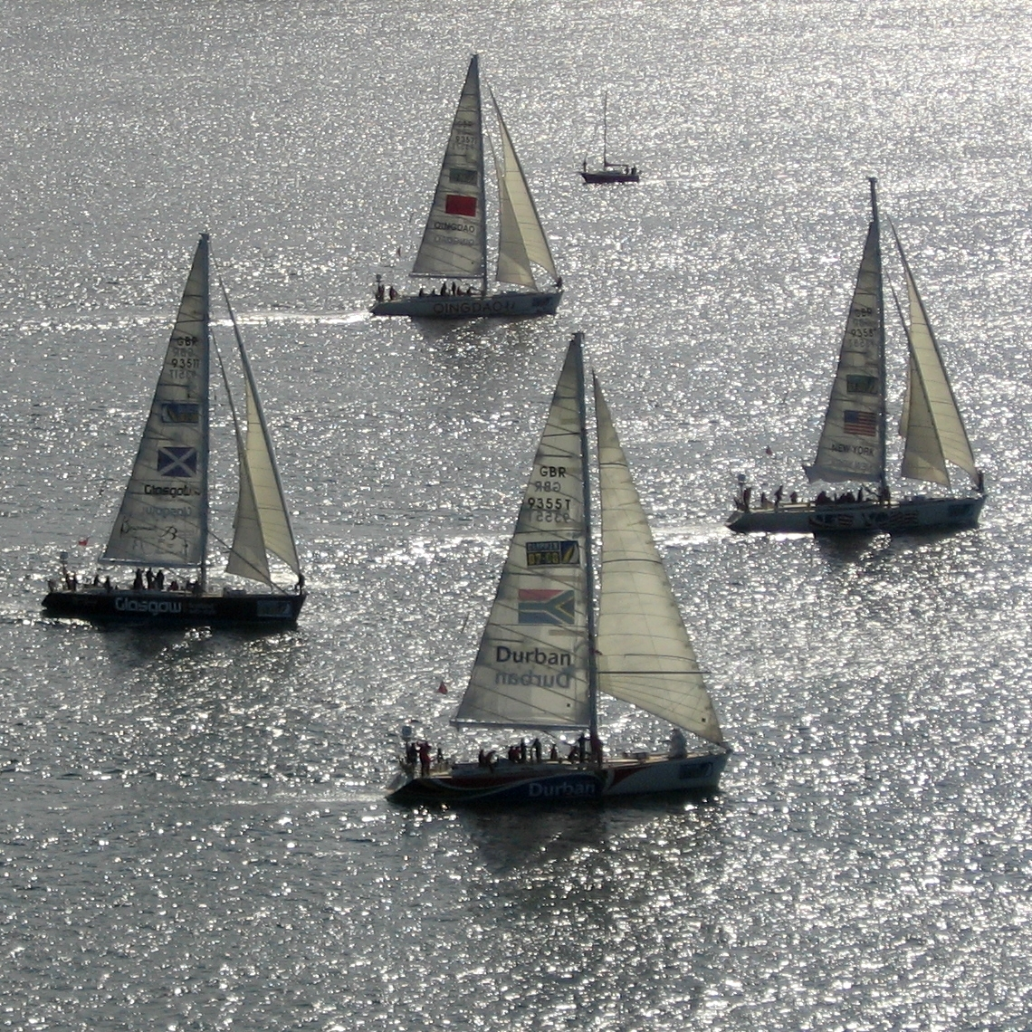 Vessels in the Clipper Round the World Race approach the starting line in Halifax Harbour at the start of the 200-mile "Democracy 250 Race" between Halifax and Sydney, Nova Scotia where the Nova Scotia to Cork Leg would officially begin.